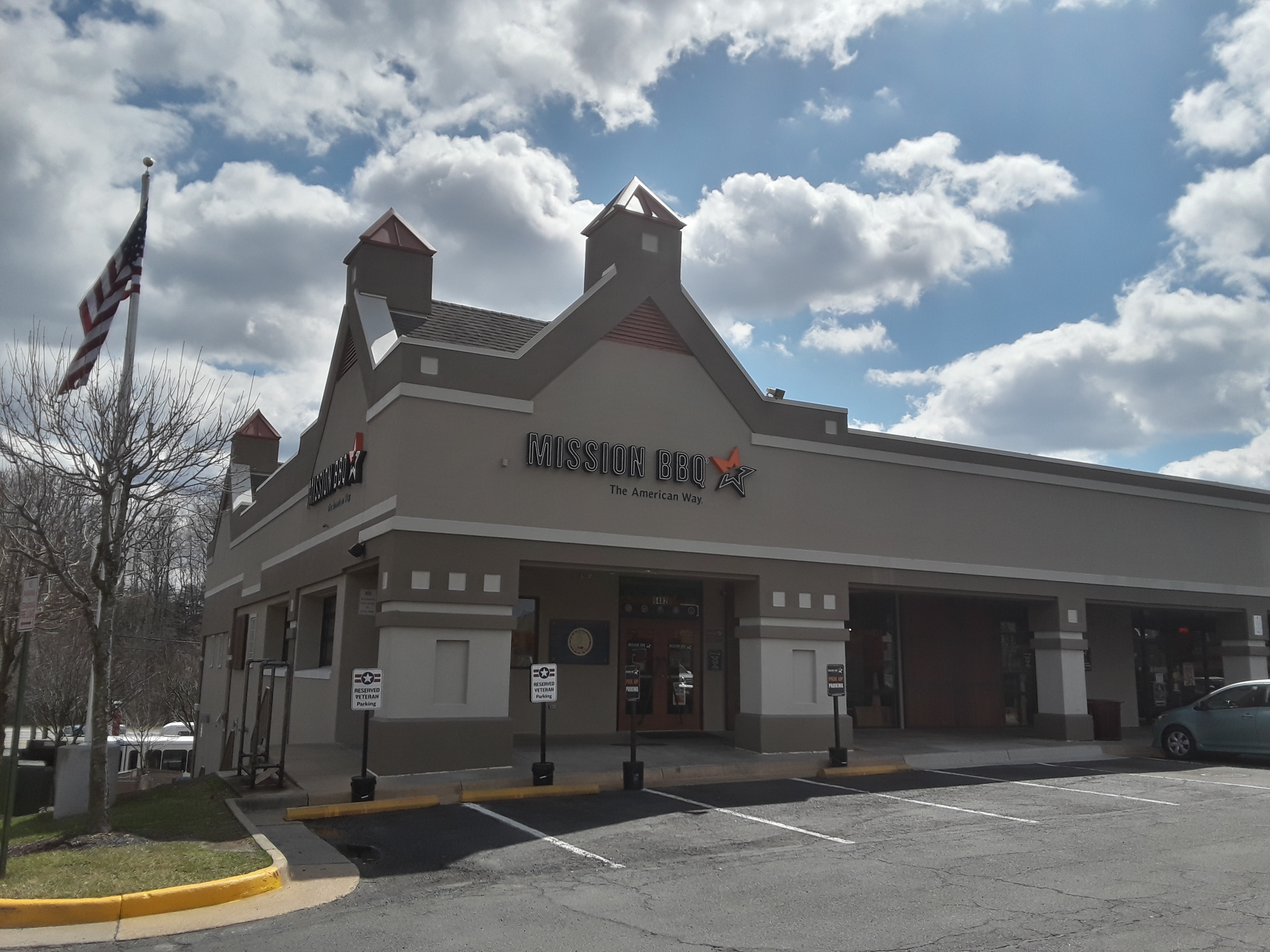 Landsdowne Centre